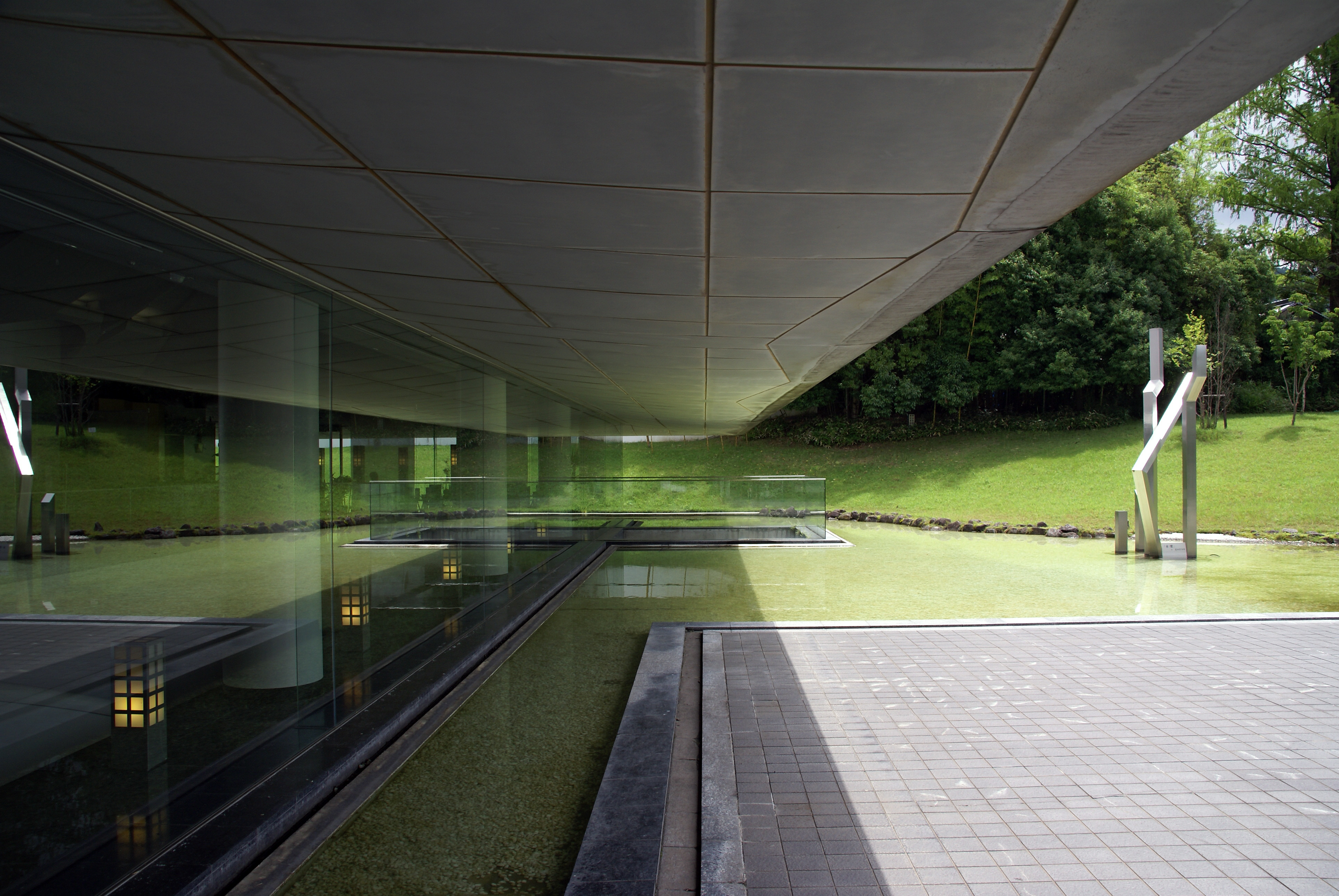 Irie Taikichi Memorial Museum of Photography Nara City in Nara, Nara prefecture, Japan